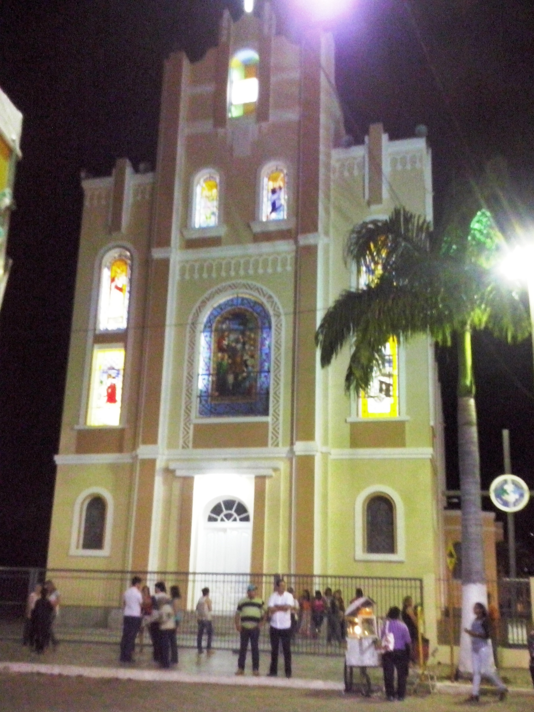 Nocturn front view of the São Pedro Matriz Church, in Baixo Guandu, Espírito Santo, Brazil.